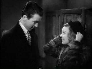 Cropped screenshot of James Stewart and Margaret Sullavan from the trailer for the film The Shop Around the Corner